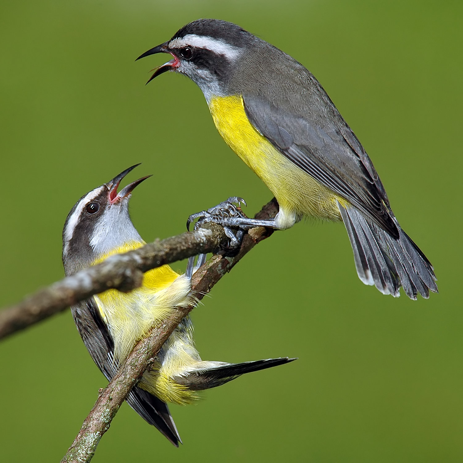 Two Bananaquits (Coereba flaveola) on a branch. - Campo Limpo Paulista, São Paulo, Brazil (2007)